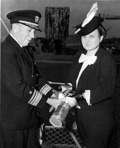 Rear Admiral Jules James and Mrs. William P. Liddle preparing to christen the USS Liddle (DE-206), Charleston Navy Yard, South Carolina (USA), 9 August 1943.